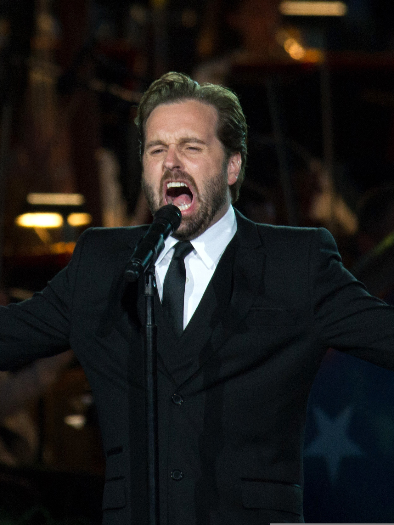 Alfie Boe sings during a Memorial Day concert on the west lawn of the U.S. Capitol in Washington, D.C., May 26, 2013.